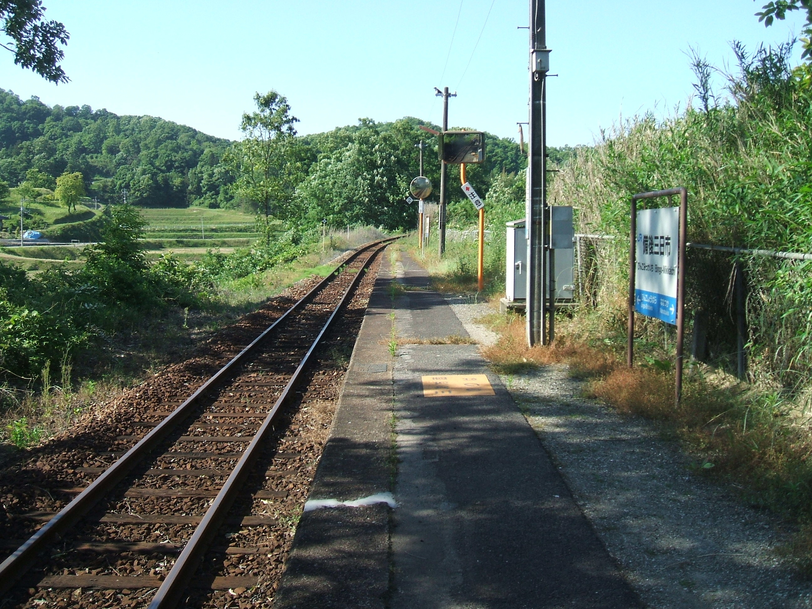 Bingo-Mikkaichi station